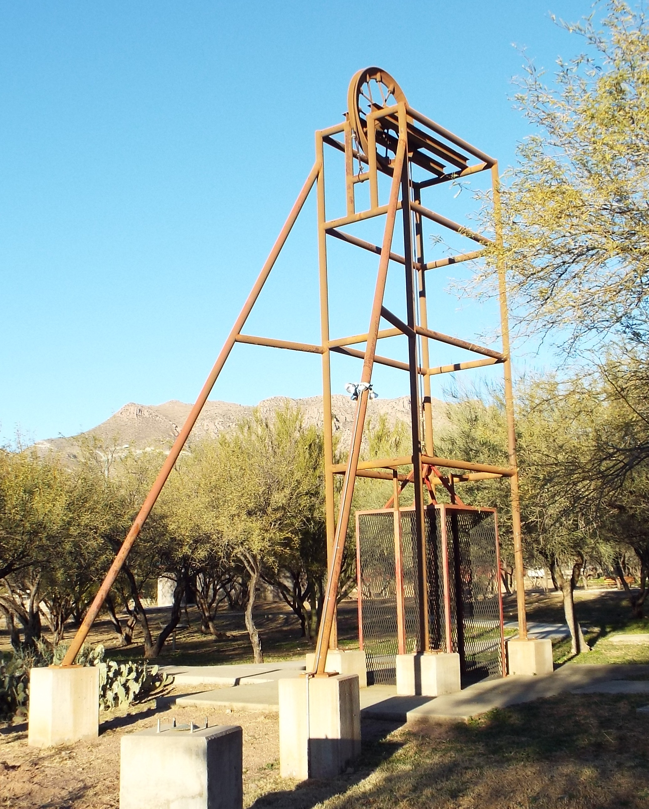 19th century stem powered elevator which was once used in the Magma Mine of Superior, Az.